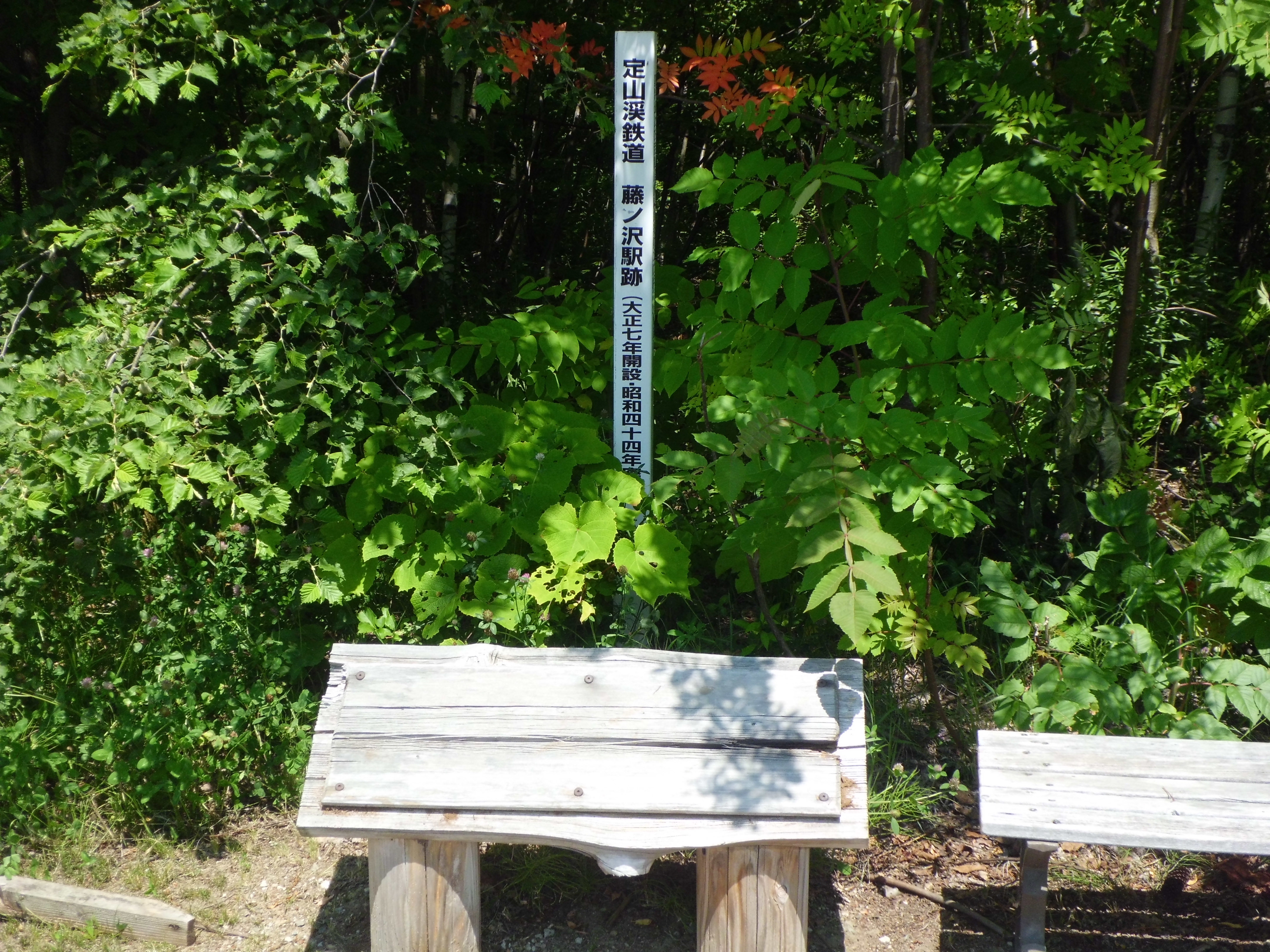 Remains of Fujinosawa Station